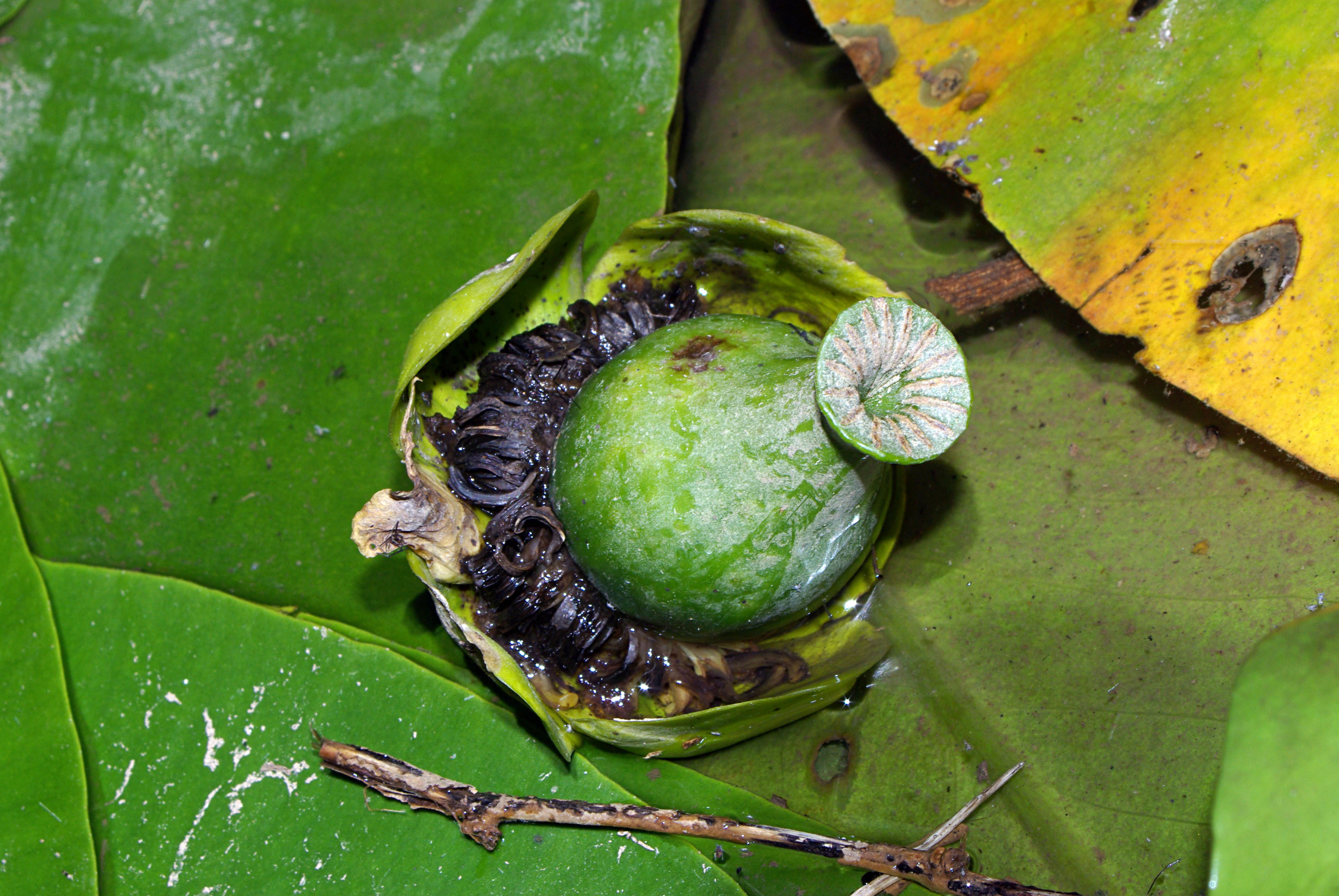 Yellow Water-lily Nuphar lutea fruit. Burgos (Spain)